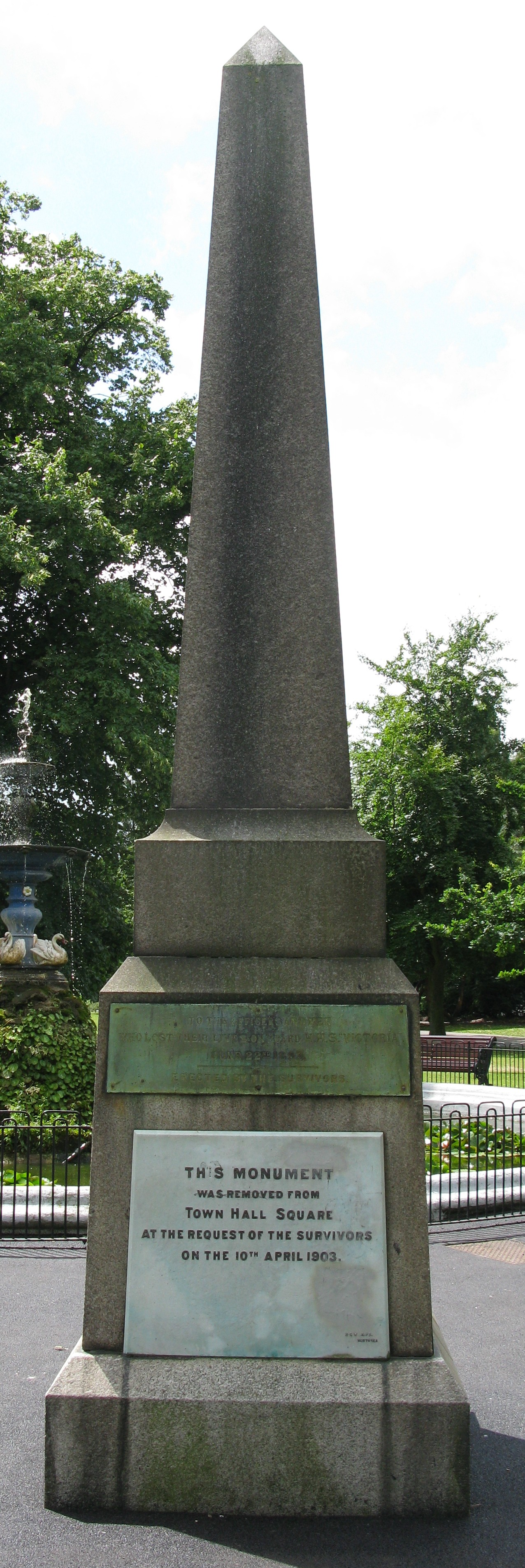 Monument in memory of those killed in the collision between HMS Camperdown and HMS Victoria, in Victoria Park, Portsmouth.